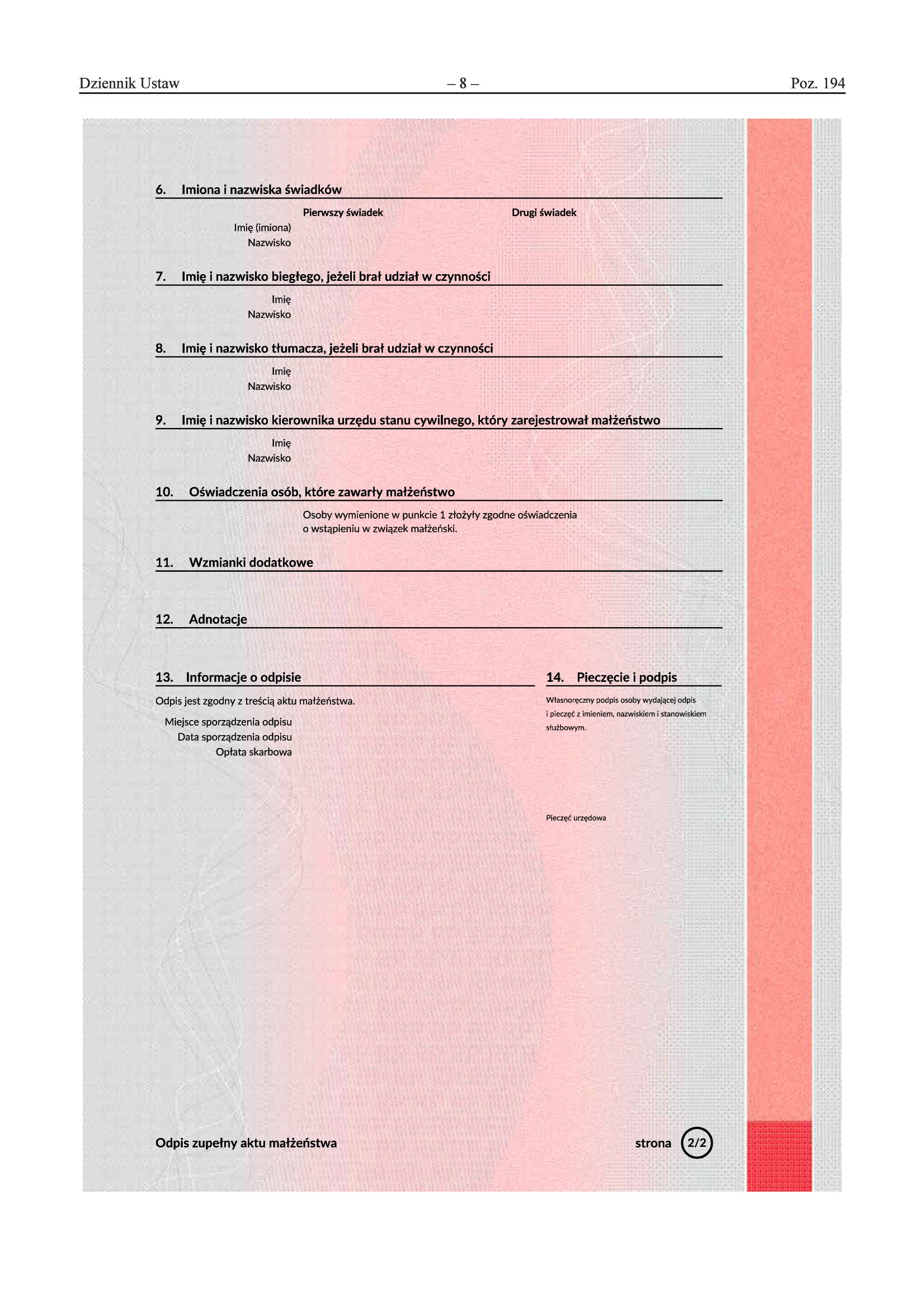 Polish marriage certificate, page 2 of 2, new version since 2015